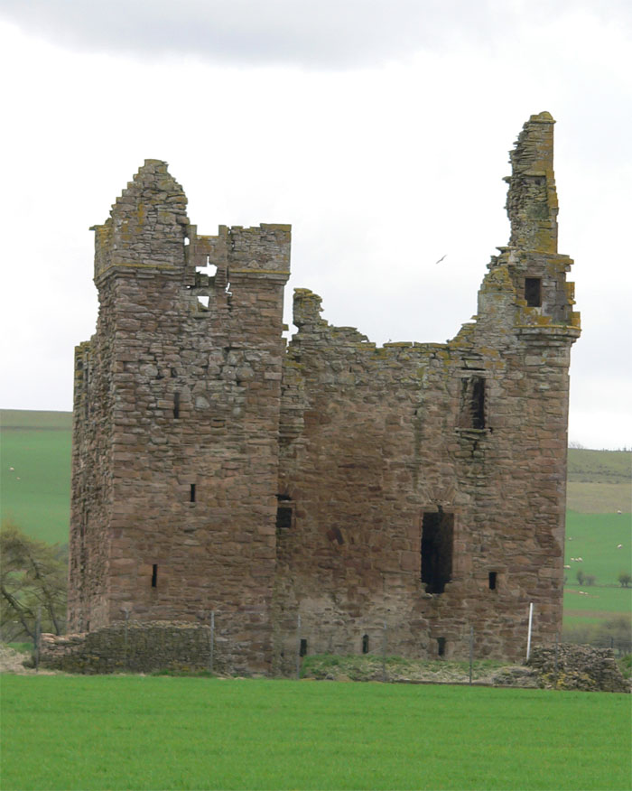 Baltersan Castle, near Maybole, South Ayrshire, Scotland